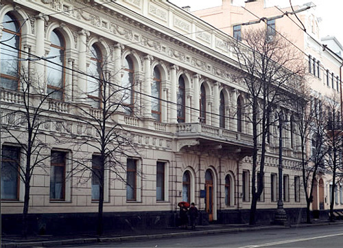 A historical building in Kyiv